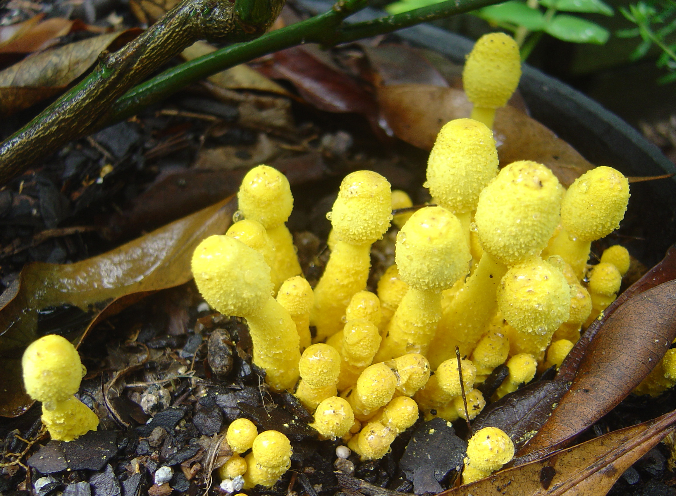 Very cute, but toxic looking yellow mushrooms in the garden after the rain.